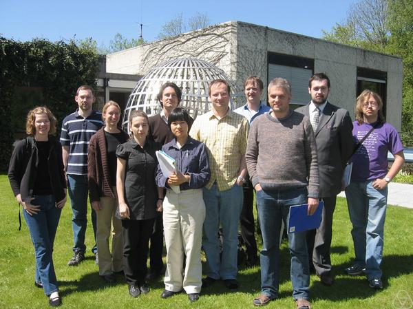 Description at MFO: On the Photo: * Dye, Heather * Niebrzydowski, Maciej * Crans, Alissa S. * Sazdanovic, Radmila * Jacobsson, Karl Magnus * Asaeda, Marta * Sikora, Adam S. * King, Simon A. * Mroczkowski, Maciej * Manturov, Vassily O. * Chmutov, Michael * Occasion:Invariants in Low-Dimensional Topology * Annotation: From left to right: Heather Dye, Maciej Niebrzydowski, Alissa S. Crans, Radmila Sazdanovic, Karl Magnus Jacobsson, Marta Asaeda, Adam Sikora, Simon A. King, Maciej Mroczkowski, Vassiliy O. Manturov, Michael Chmutov * Location: Oberwolfach * Author: Schmid, Katrin (photos provided by Schmid, Katrin) * Source: MFO * Year: 2008 * Copyright: MFO * Photo ID: 10676